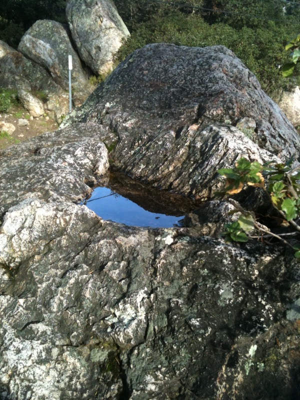 This pit filled with rainwater is carved in the surface of one of the boulders at Indian Rock Park in Berkeley, California. Such pits were used by the local Huichin band of the Ohlone Indians for grinding acorns.